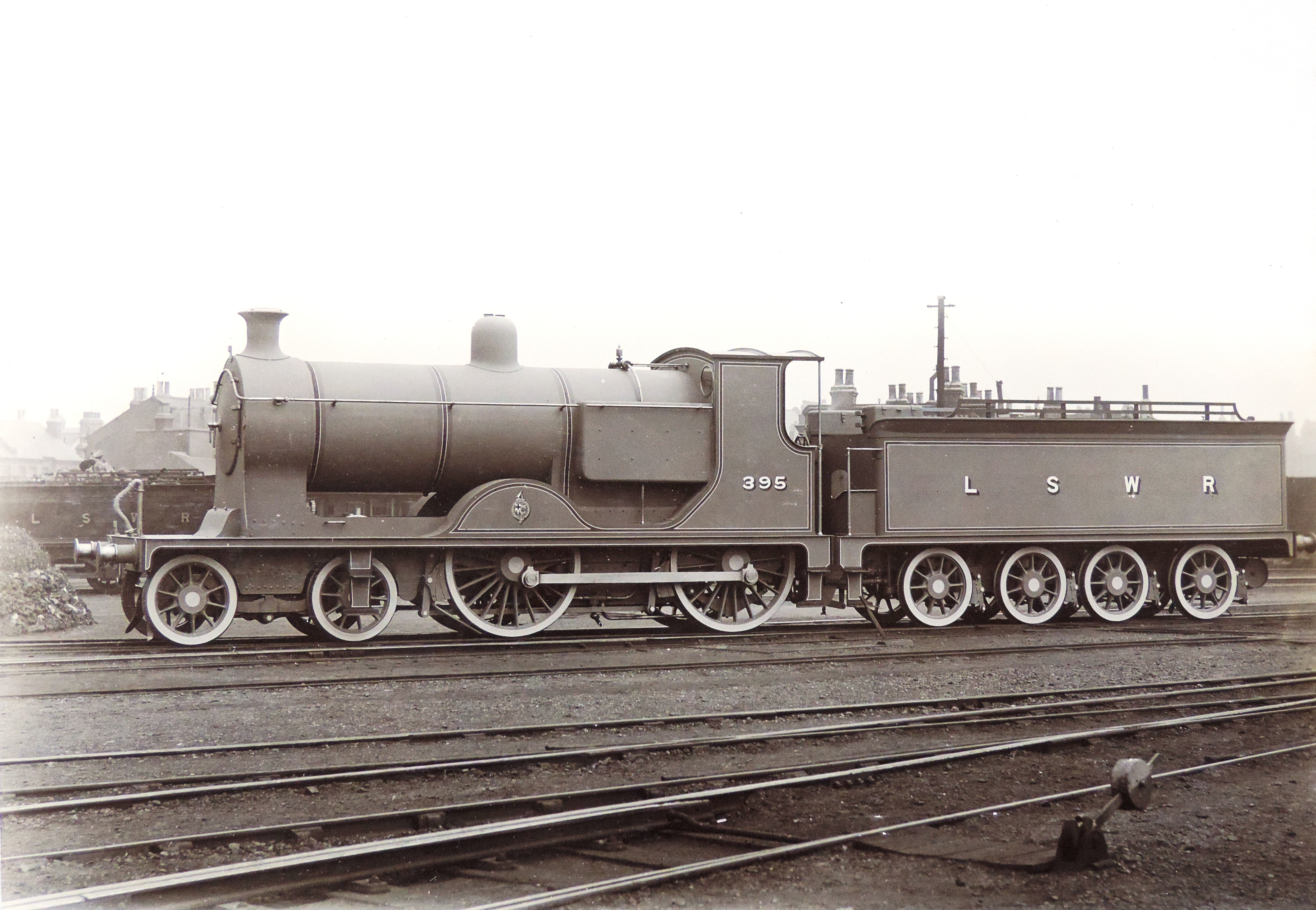 London and South Western Railway 395. LSWY S11 class 4-4-0, built at the railway’s Nine Elms Works in June 1903 (order S11); rebuilt with Eastleigh superheater in July 1921; became Southern Railway E395 (later No. 395); rebuilt with Maunsell superheater in February 1930; became British Railways 30395 in 1948; withdrawn September 1951.